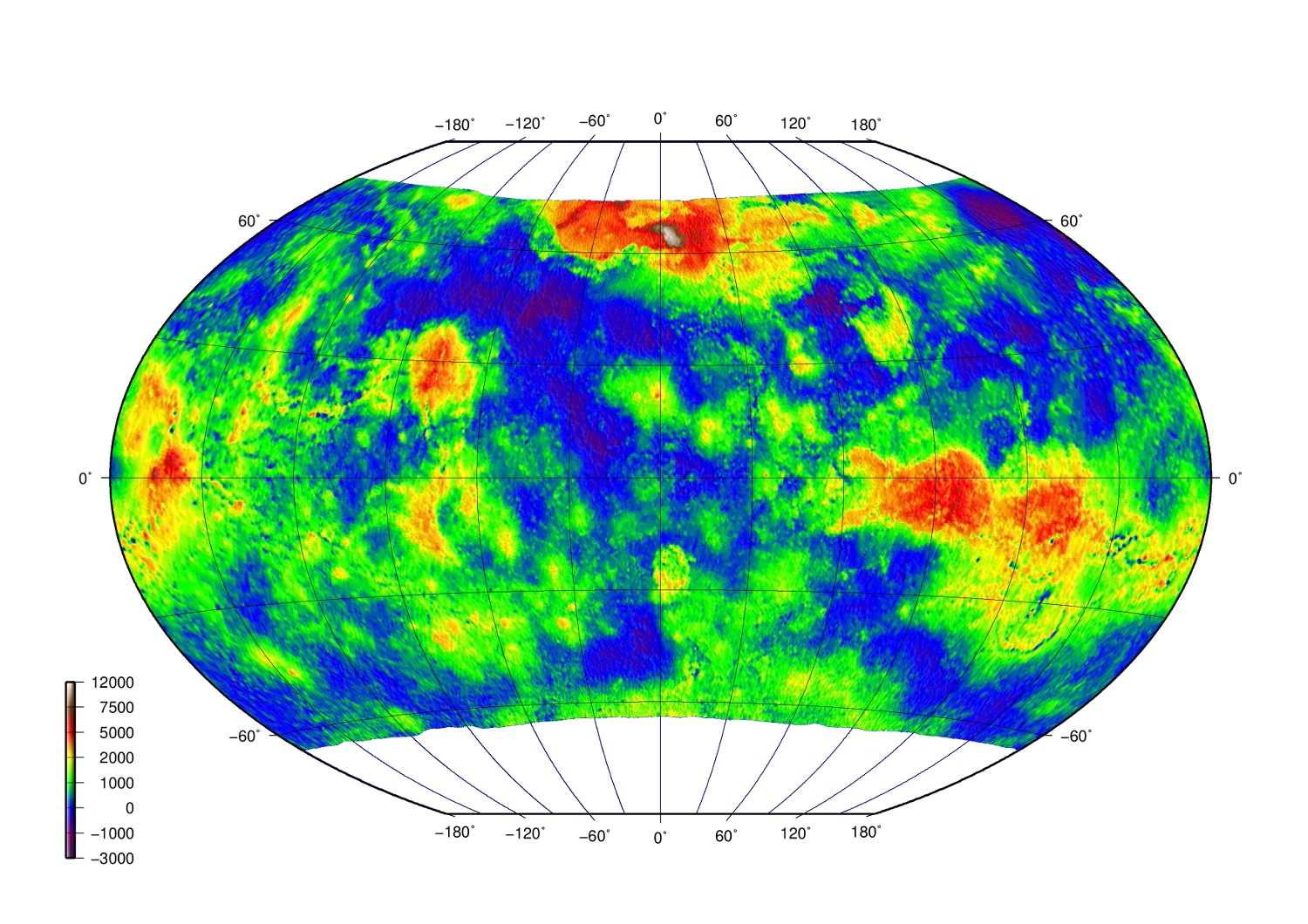 Pioneer Venus Orbiter topography data displayed on a Winkel Tripel projection unsing GMT. Data from